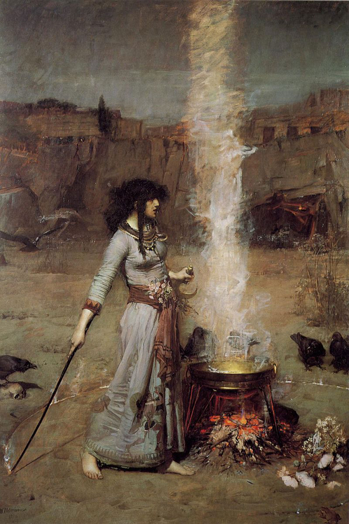 The Magic Circle